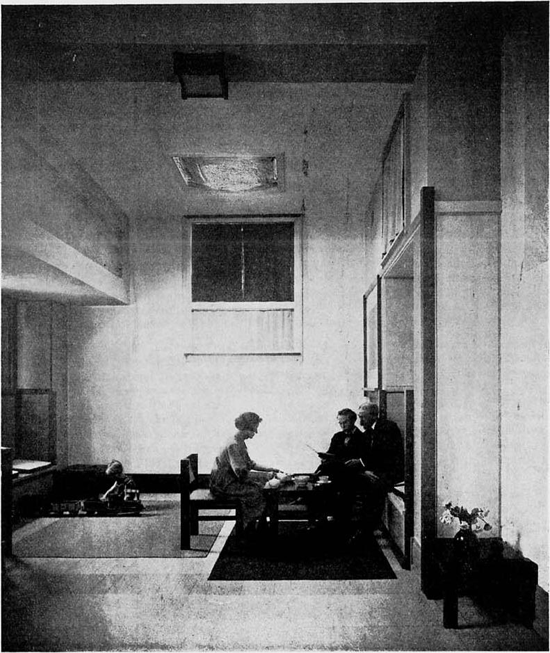 Jan Wils (architect) & Vilmos Huszar (painter). Berssenbrugge photographic studio, The Hague. 1921.